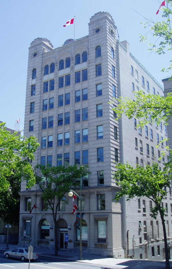 Taken by SimonP in July 2005